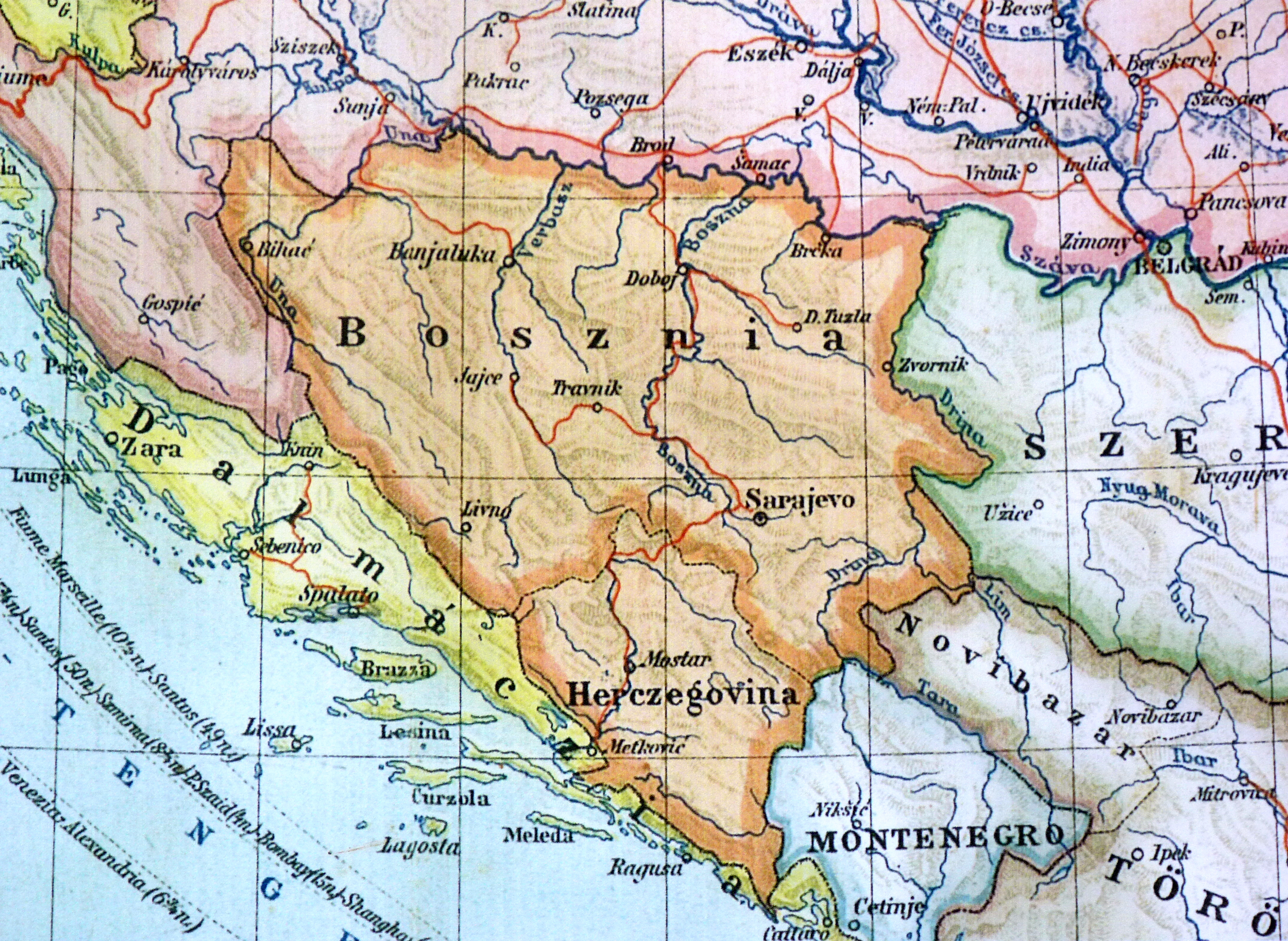 Historical map of railway lines in Bosnia and Herzegovina. This image is an excerpt of a larger map showing the Kingdom of Hungary.